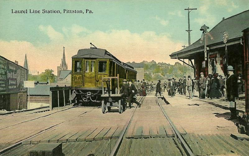 Laurel Line Station, Pittston, Pennsylvania. The Lackawanna and Wyoming Valley Railroad, or Laurel Line, was an interurban commuter streetcar line which operated from 1903 to 1952 (freight service until 1976).